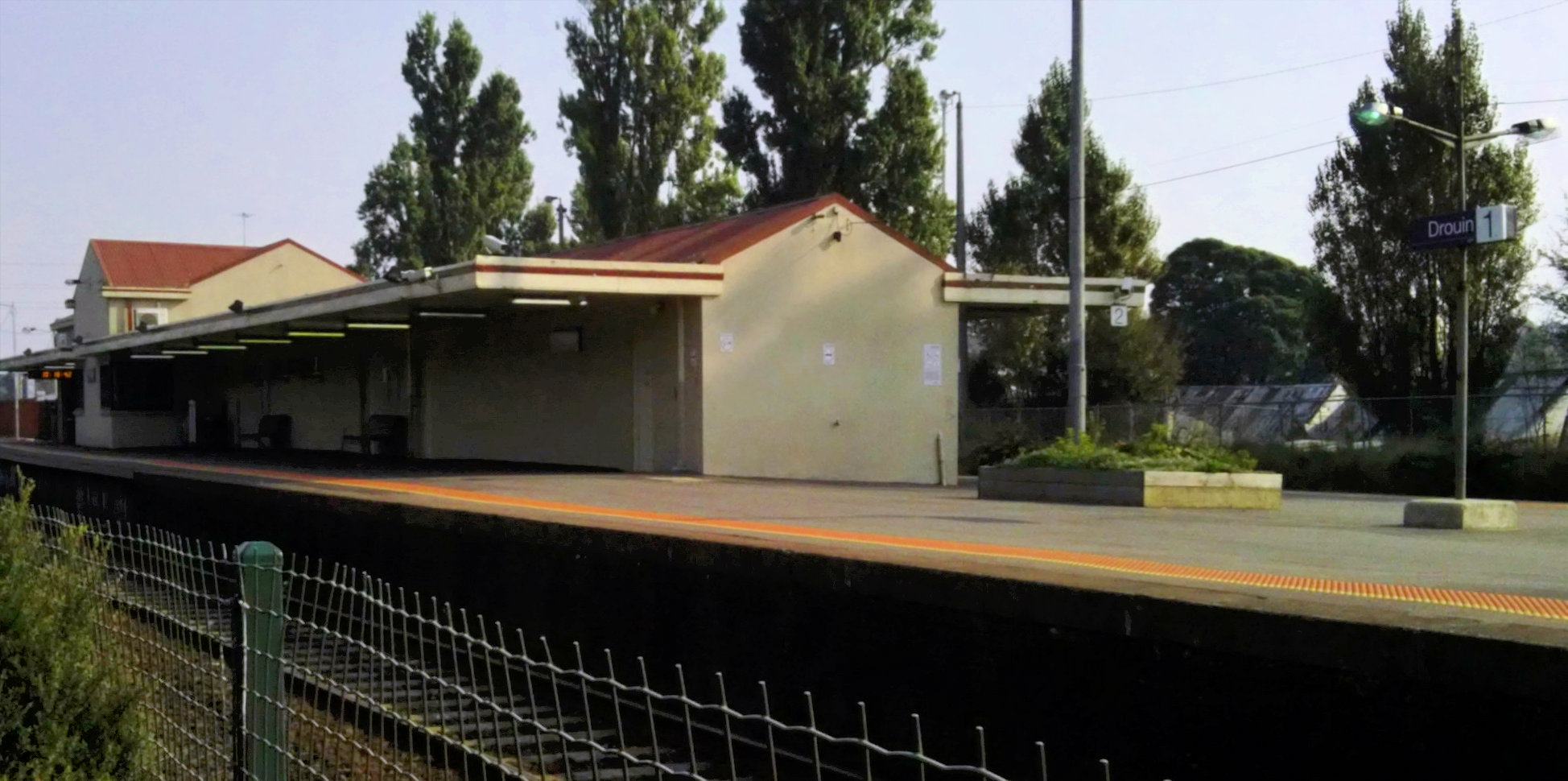 Drouin railway station.